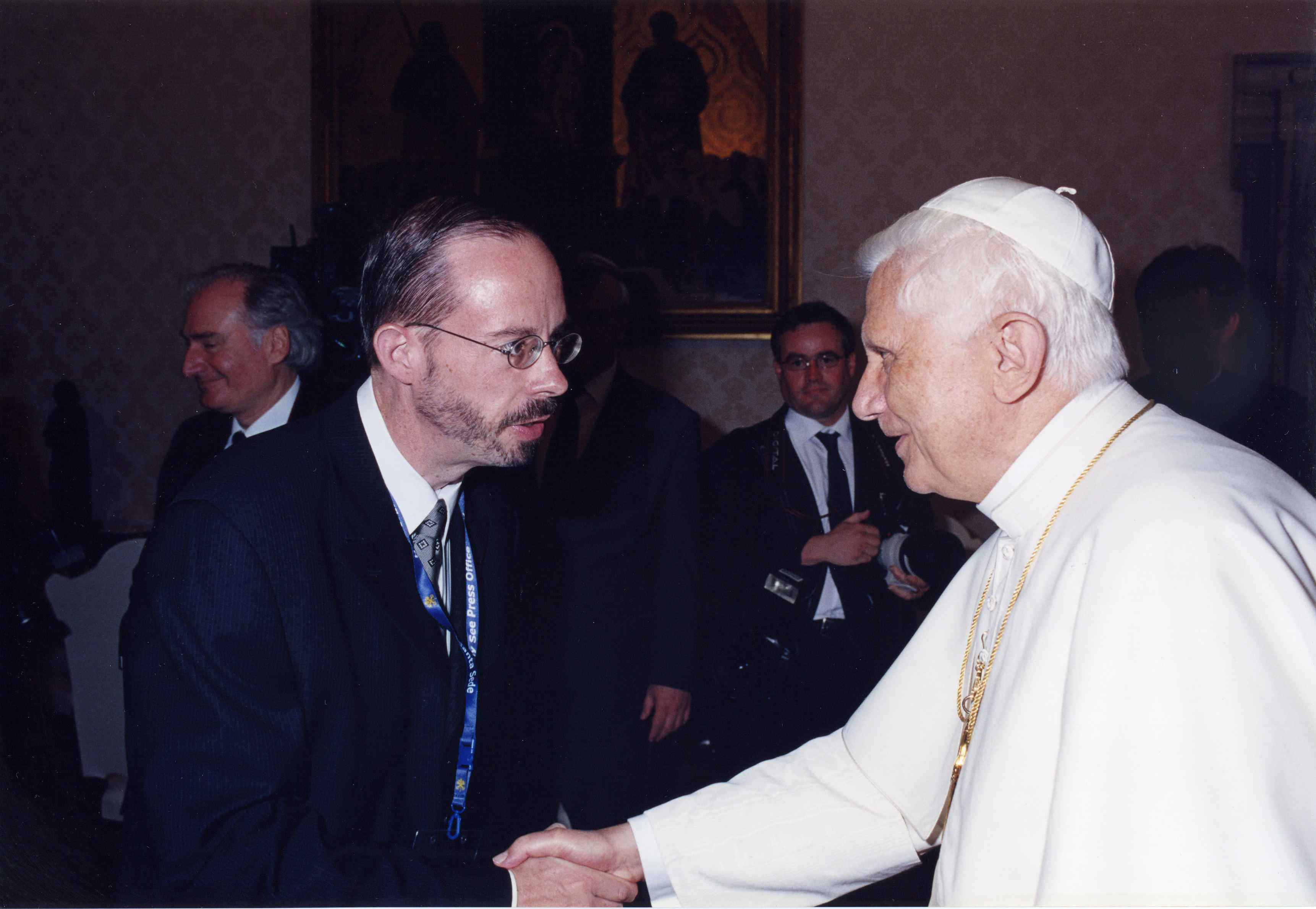 John L. Allen, Jr. with Pope Benedict XVI. John Allen is multi-awarded journalist, who is known for his objectivity. He is a vaticanista, i.e. a journalist specializing on Vatican affairs.